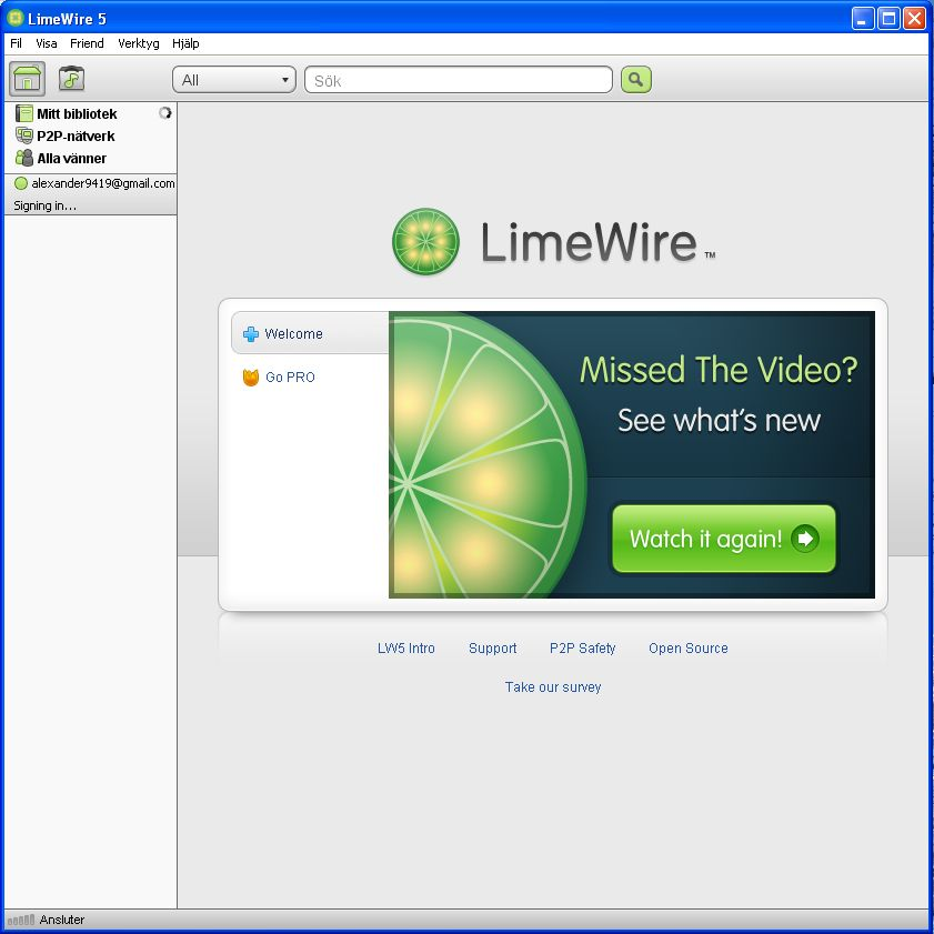 LimeWire 5.1.2